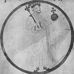 Peter II of Aragon